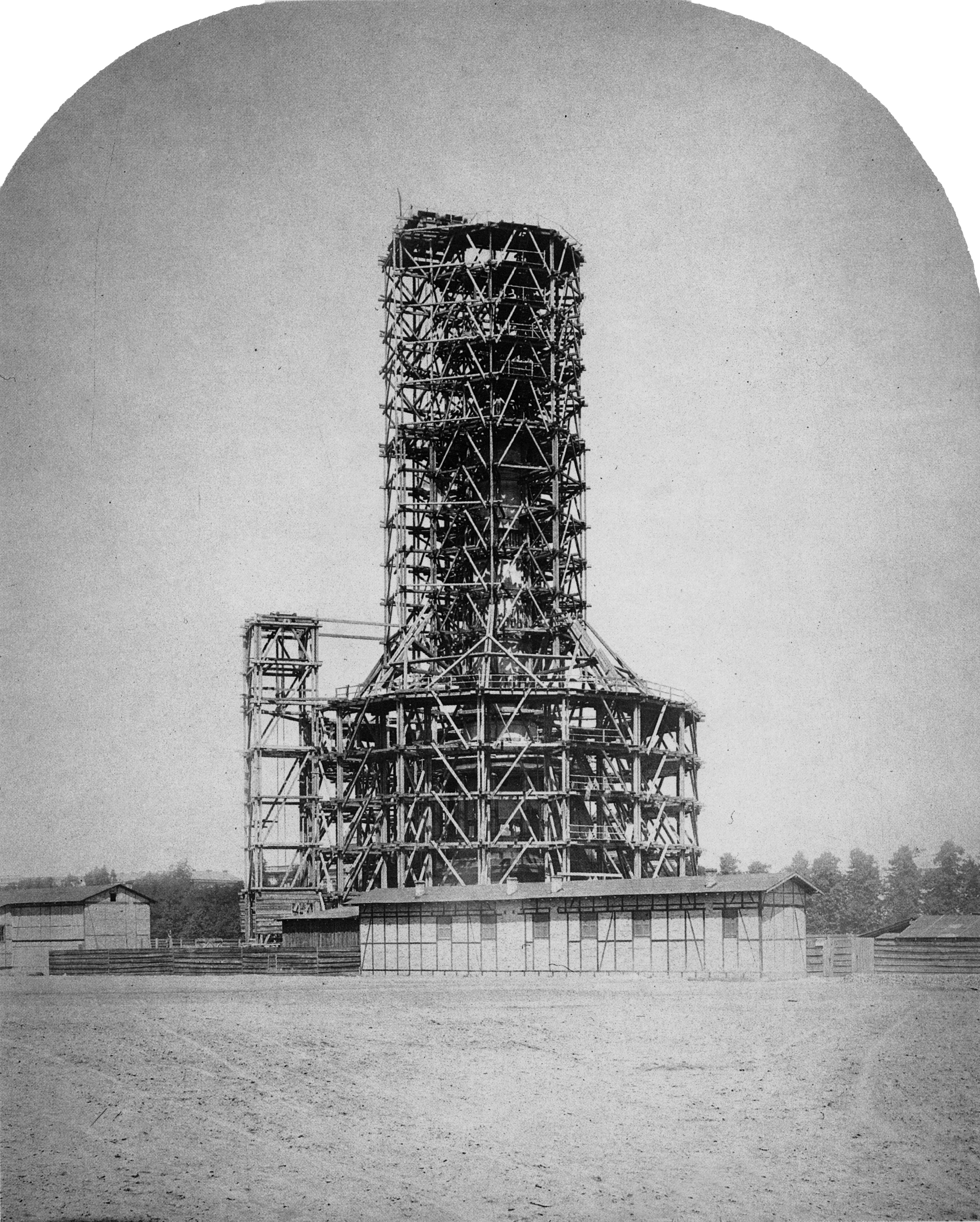 The construction of the Berlin Victory Column at its old place, the Königsplatz (now Platz der Republik) in front of the Reichstag building.